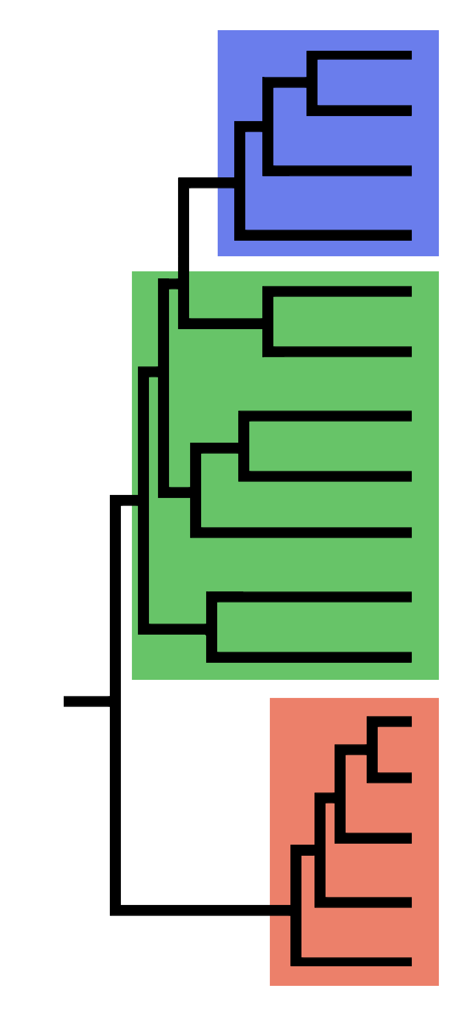 Hypothetical cladogram showing two clades (red and blue) and a grade (green).